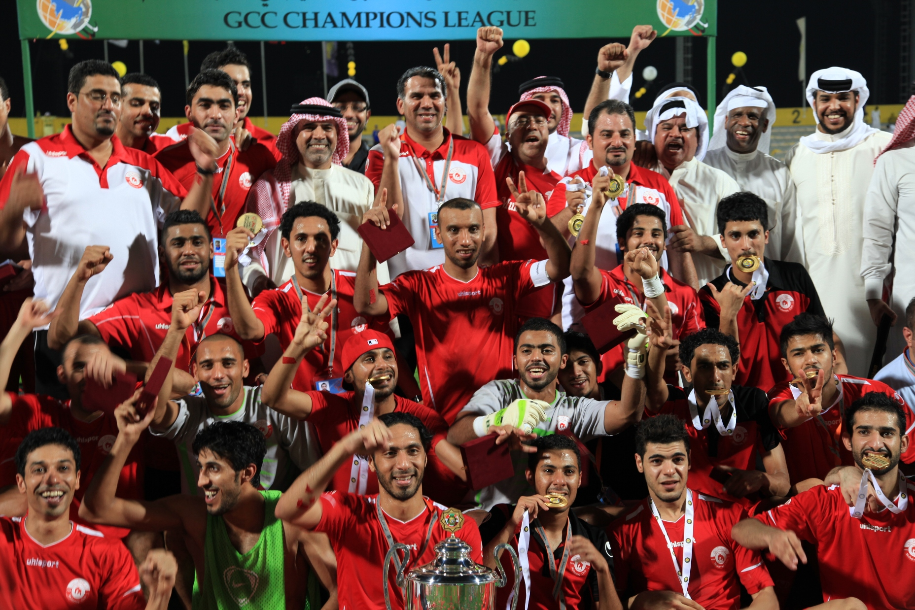 2012 GCC Champions League Al Muharraq club victory